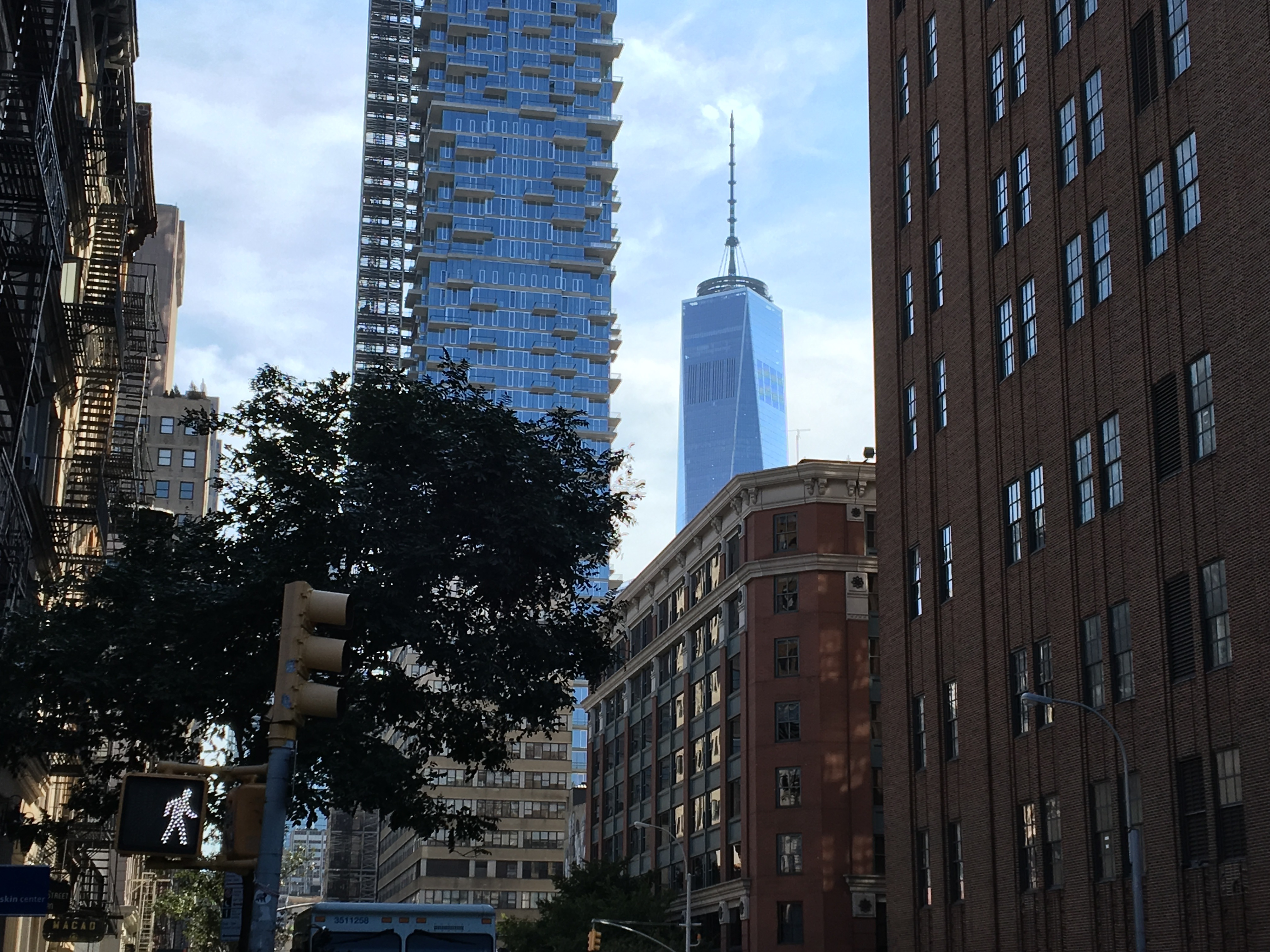 2016 view from Lispenard St and Church St looking south from original video location of Flight 11 crashing into WTC 1.